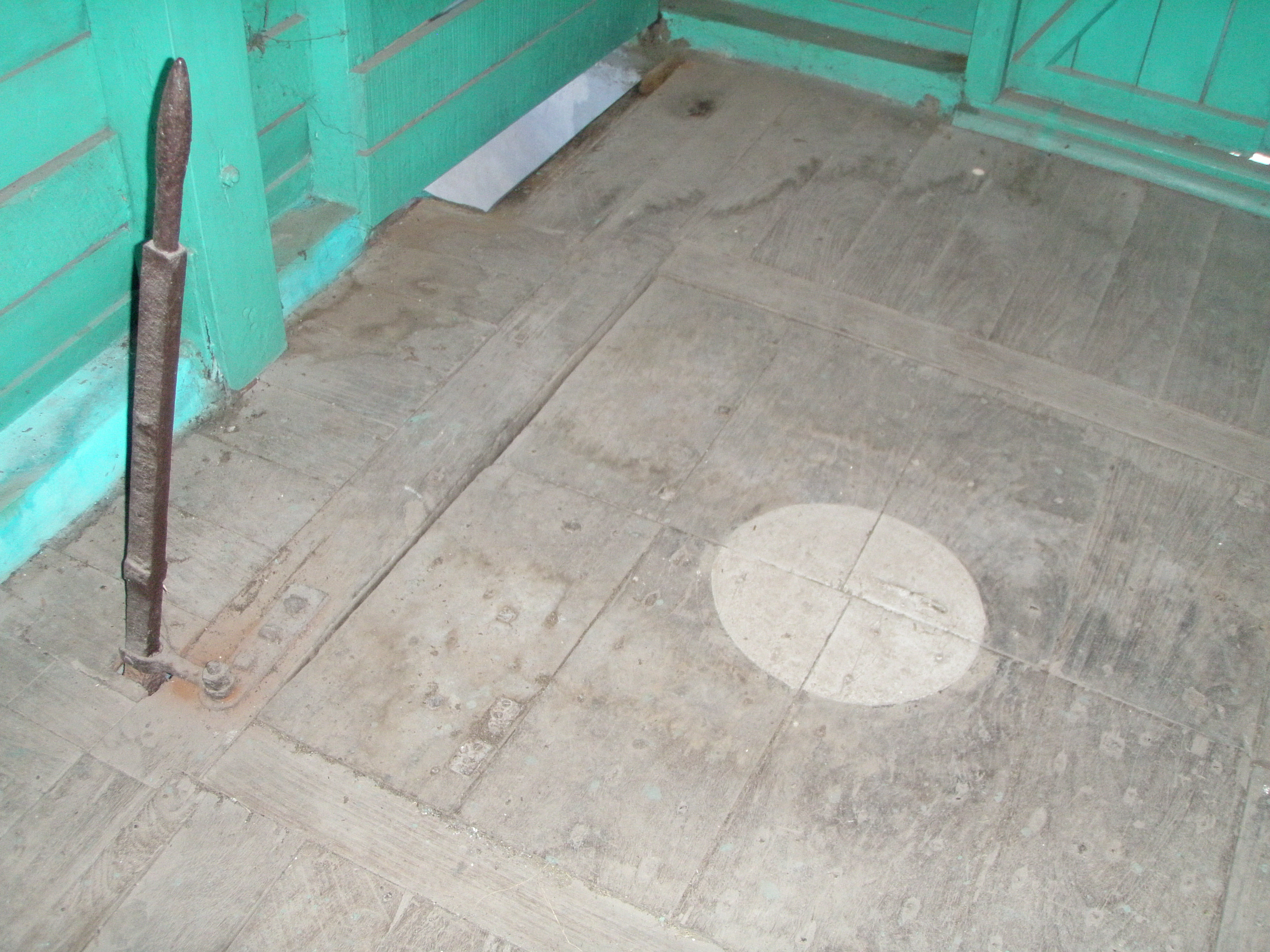 The Andaman Cellular Jail was the shadiest prison of the British rule in india. Now it is Indian National Memorial and tourist attraction at Port Blair, Andaman.